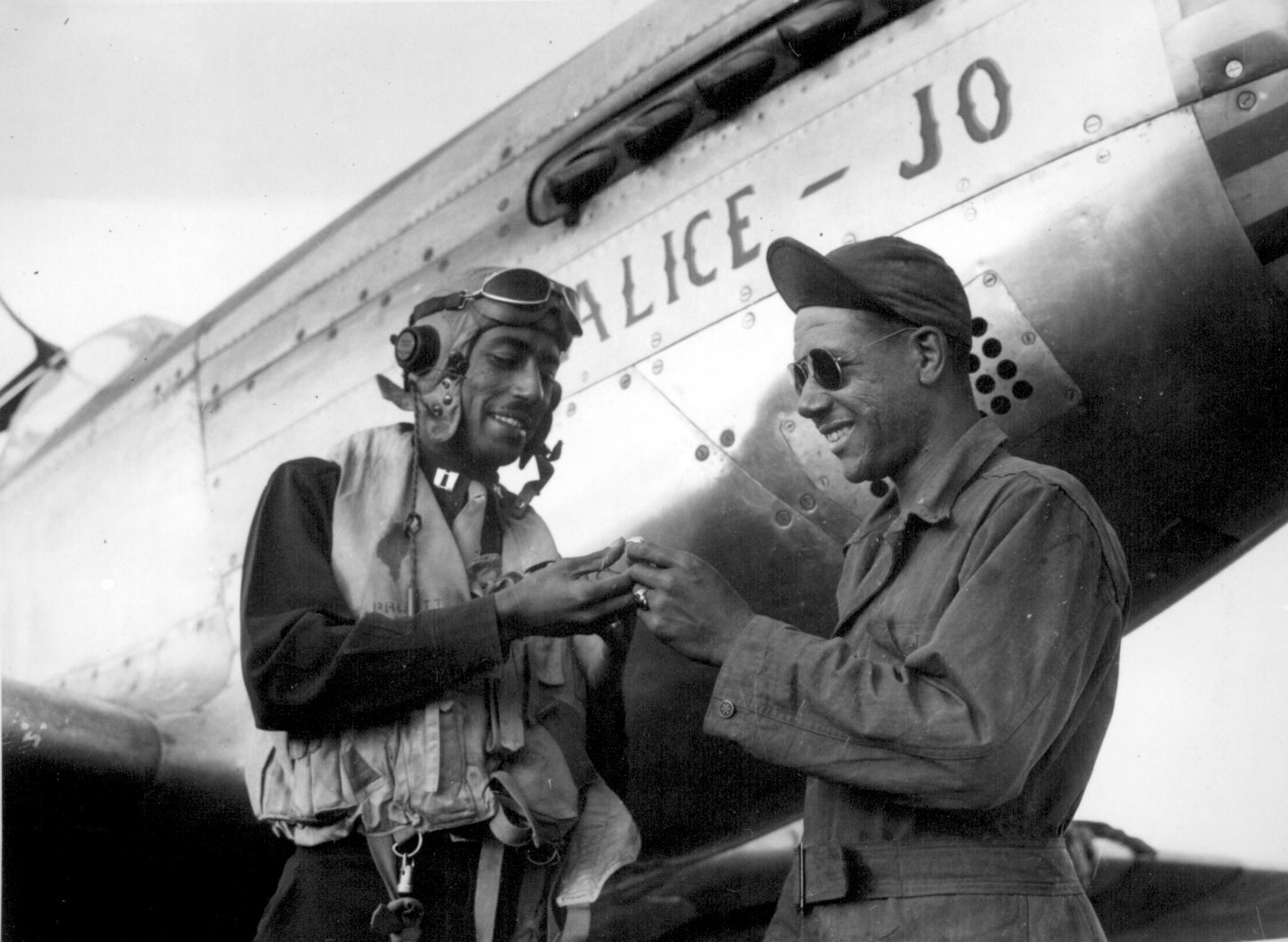 from NARA :"Capt. Wendell O. Pruitt..., one of the leading pilots of the 15th Air Force always makes sure that he leaves his valuable ring with his crew chief, S/Sgt. Samuel W. Jacobs." Ca. November 1944. 208-AA-46BB-4.